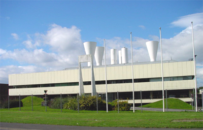 British Gas (Northern Gas Board) building in west Killingworth, Tyne & Wear, UK.